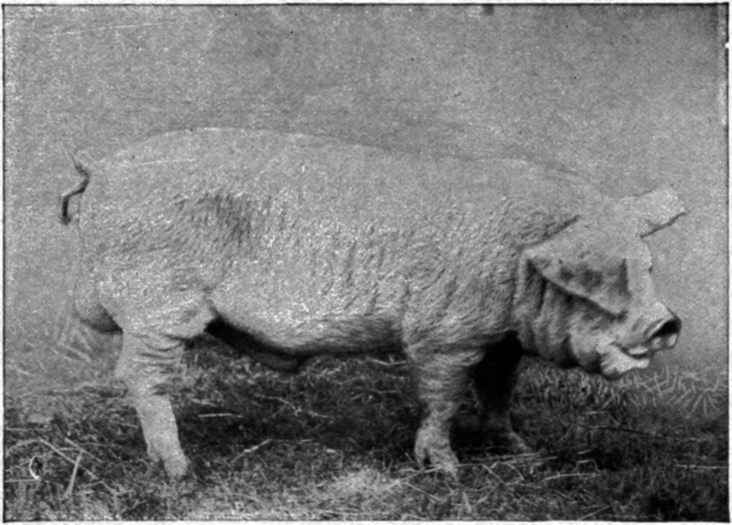 Lincolnshire Curly Coat boar, from: Robert Morrison (1928). The Individuality of the Pig: its Breeding, Feeding and Management. New York: E.P. Dutton & Company.